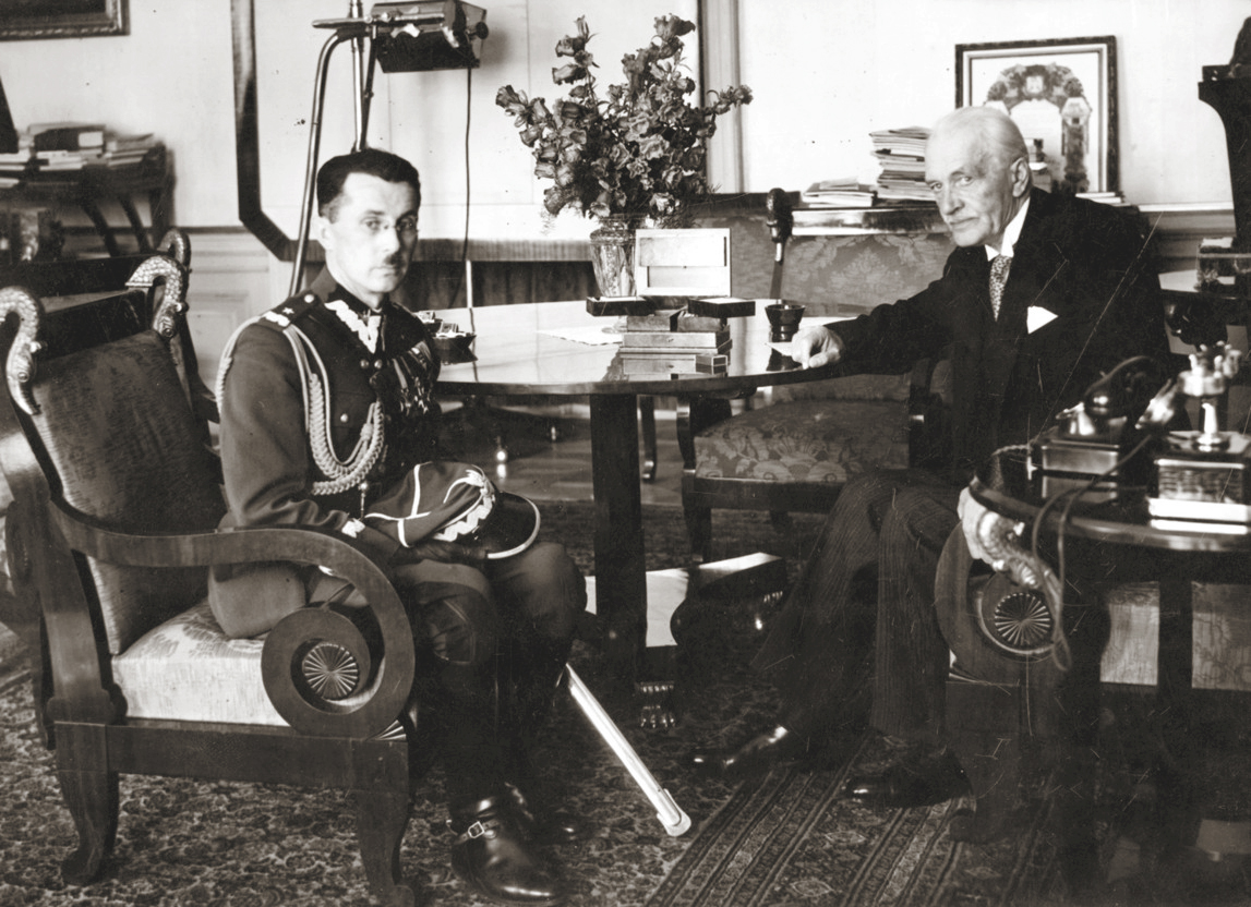 Gen. Wacław Stachiewicz and President of Poland Ignacy Mościcki 1935